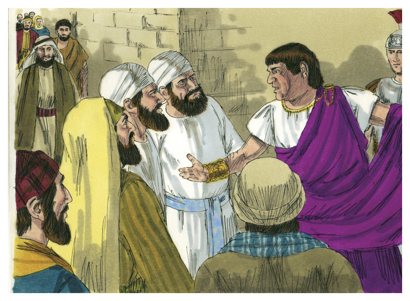 Biblical illustration of Gospel of John Chapter 18